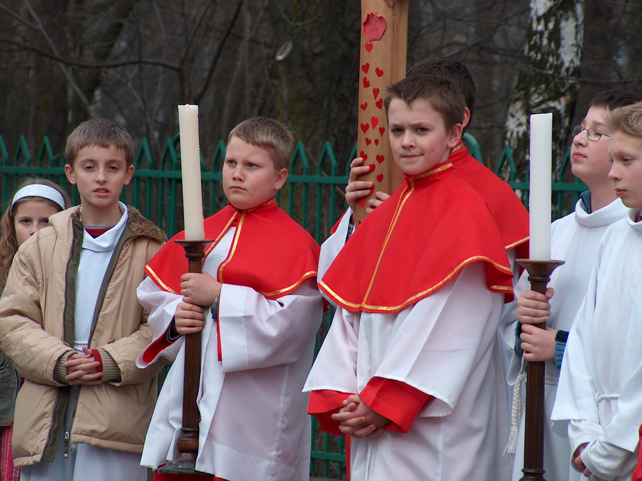 Altar servers from Ołtarzew, Poland.